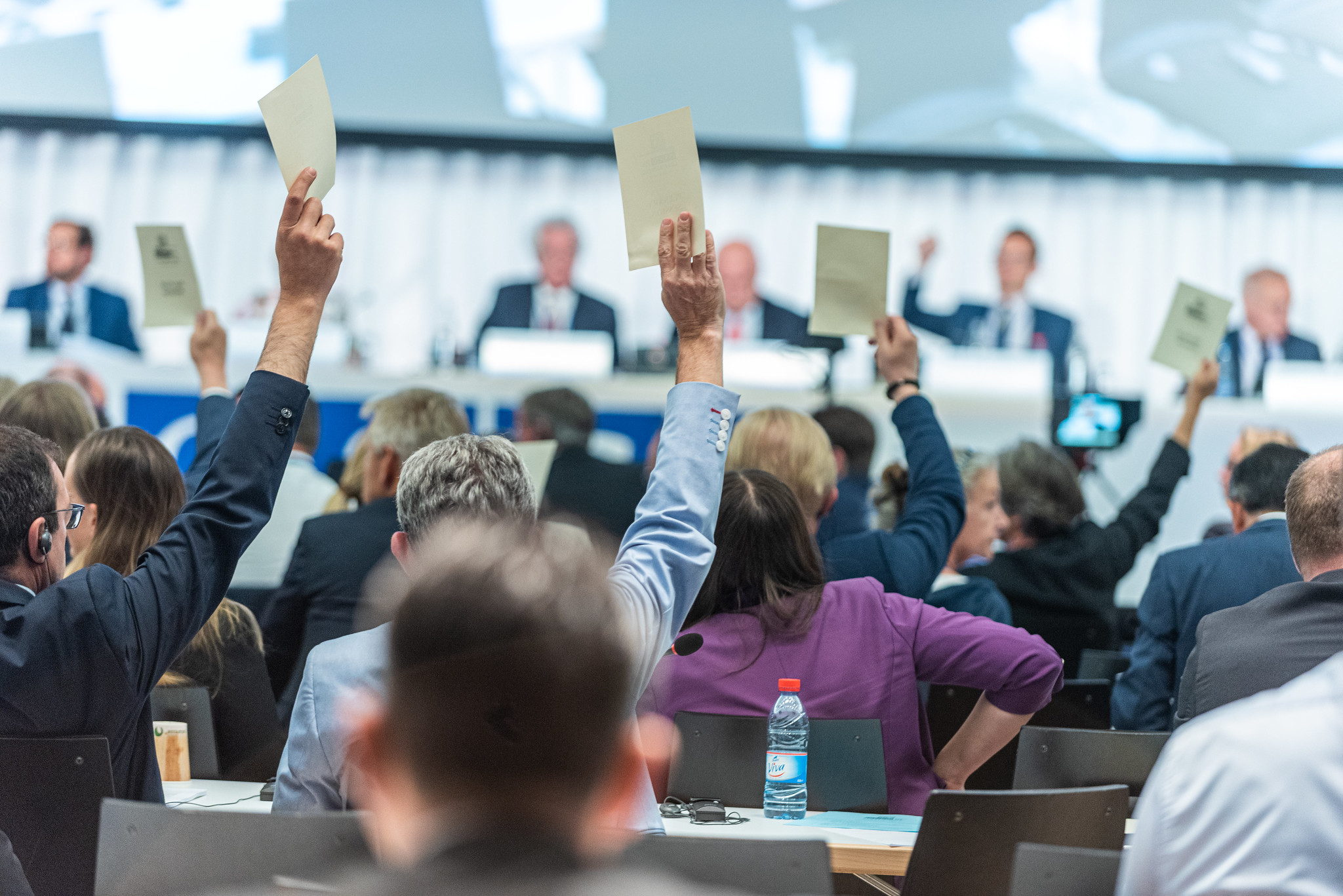 Parliamentary Assembly of the OSCE, Voting at the Plenary Session, 8 July 2019